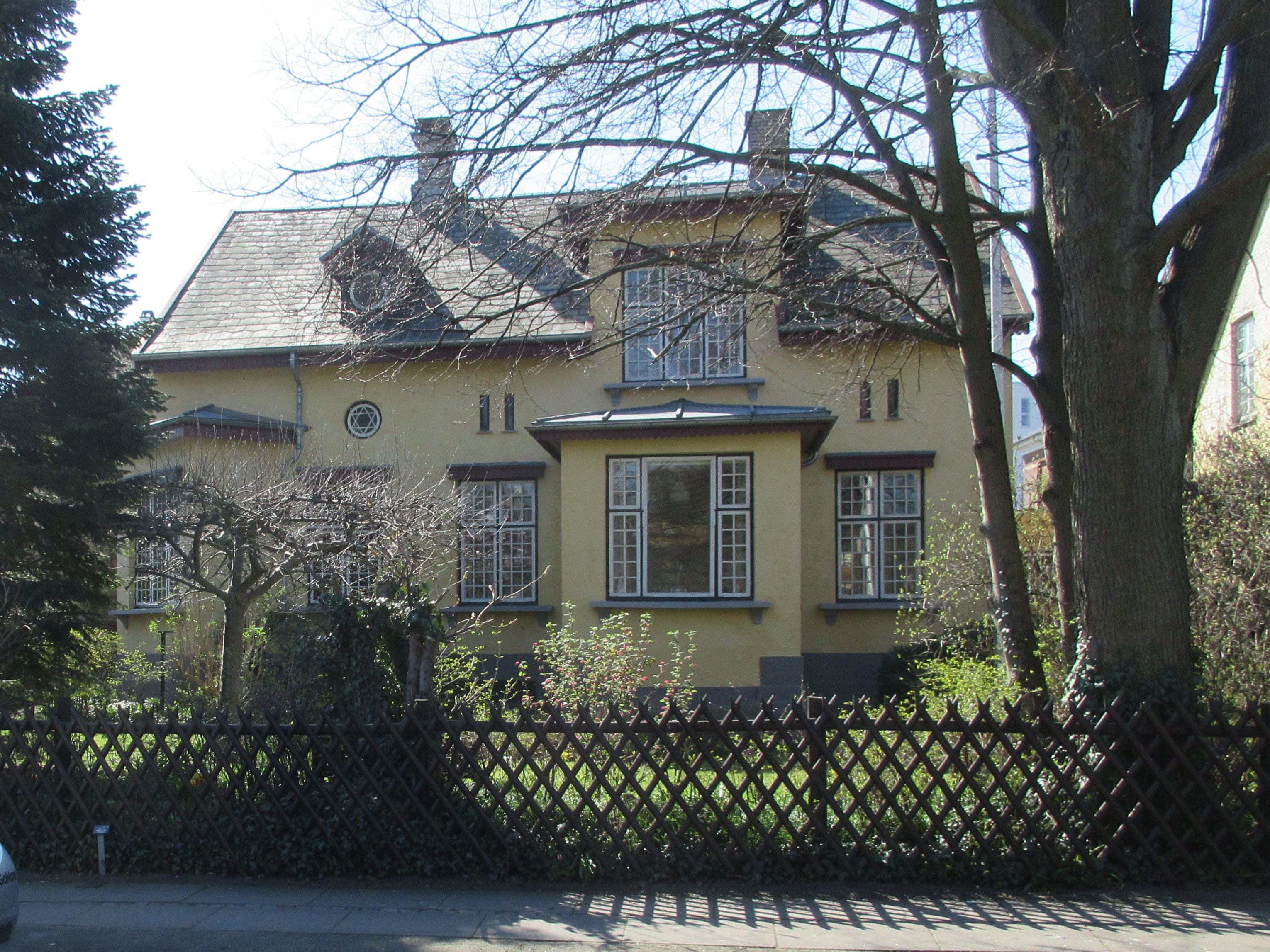 Dronning Olgas Vej 17 in Frederiksberg, Denmark